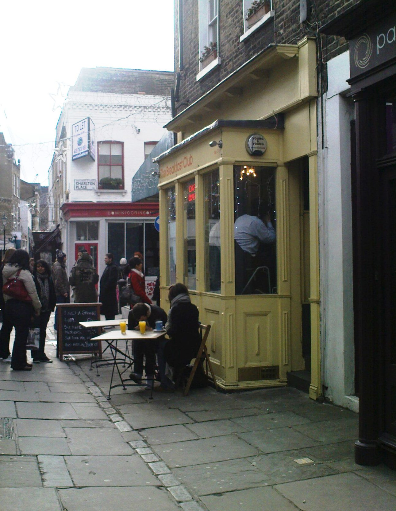 Islington Camden Passage Restaurant